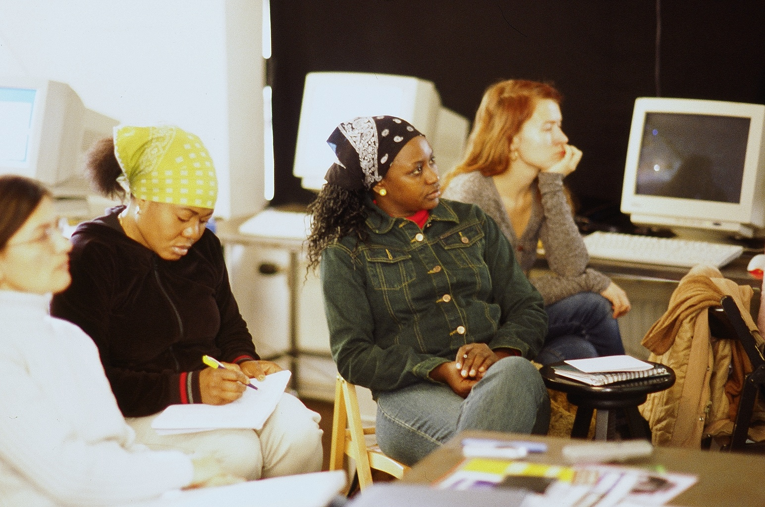 Netbase, workshop